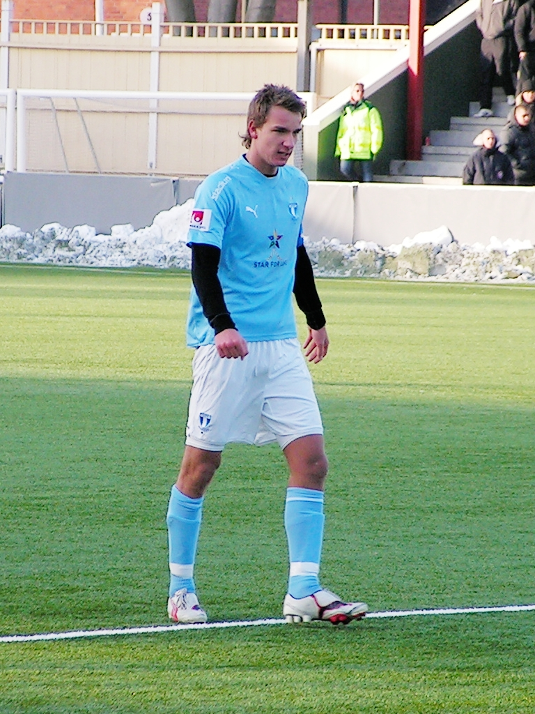 Jasmin Sudic for Malmö FF in a friendly game vs HB Köge 23 Jan 2010 at Malmö IP in Malmö, Sweden.